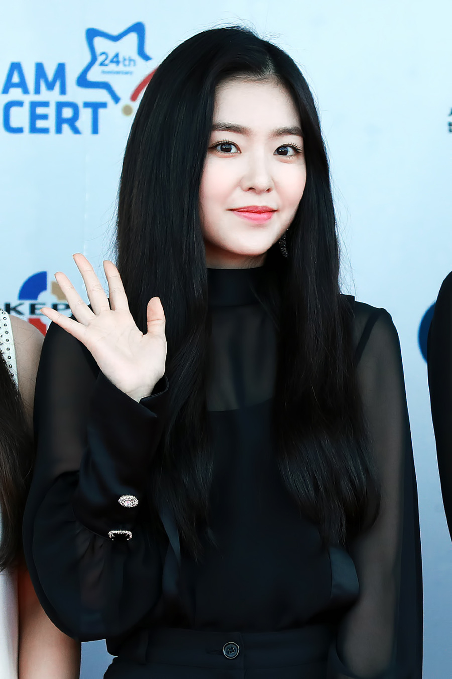 Irene Bae at Dream Concert on May 12, 2018.